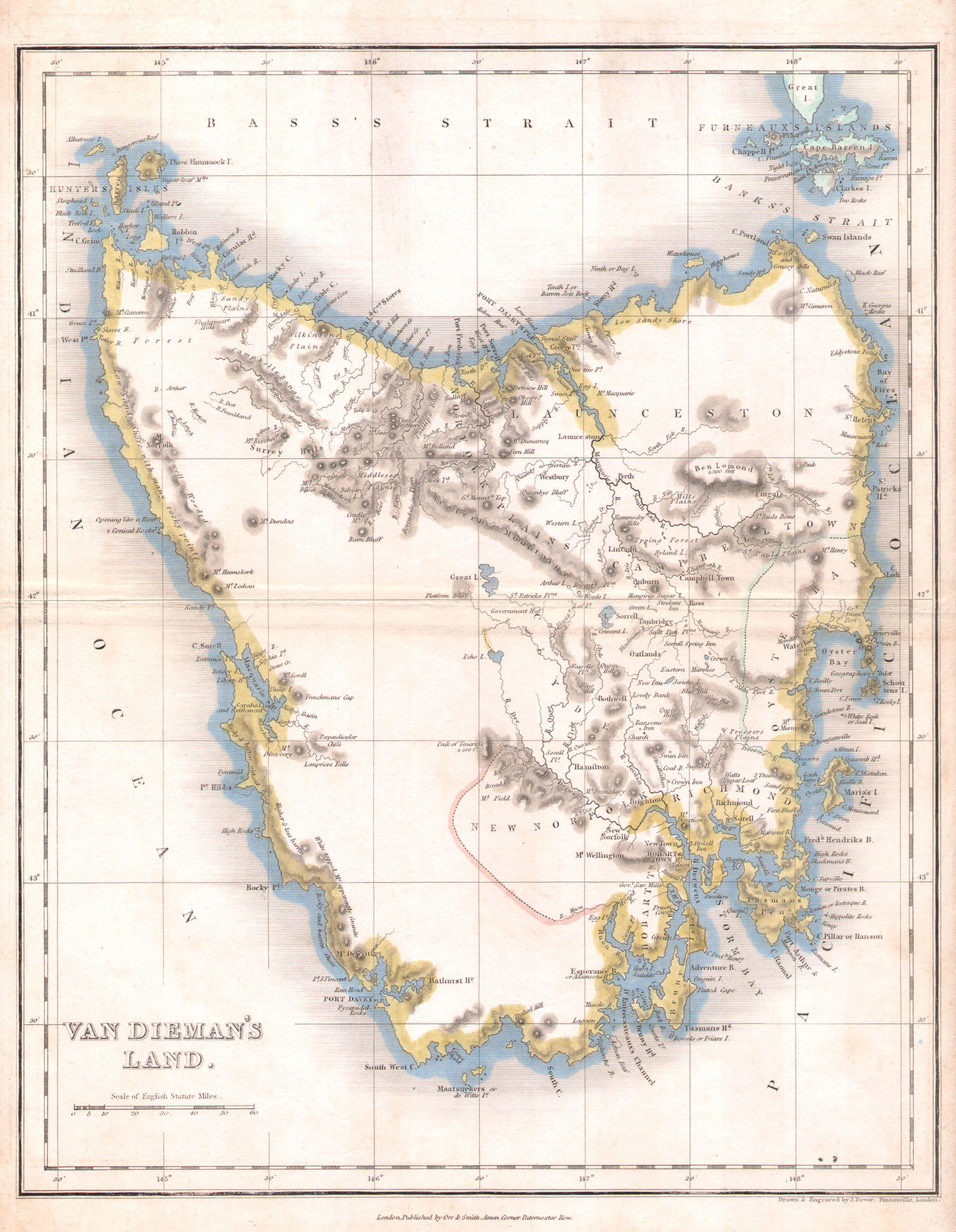 A very rare and unusual example of John Dower’s 1837 map of Tasmania or Van Dieman’s Land. Depicts the island in considerable detail with good notes on geographical features, especially along the coast. Maps of Tasmania are exceptionally rare and this one is no exception. Prepared by John Dower and published by Orr and Smith in 1837.